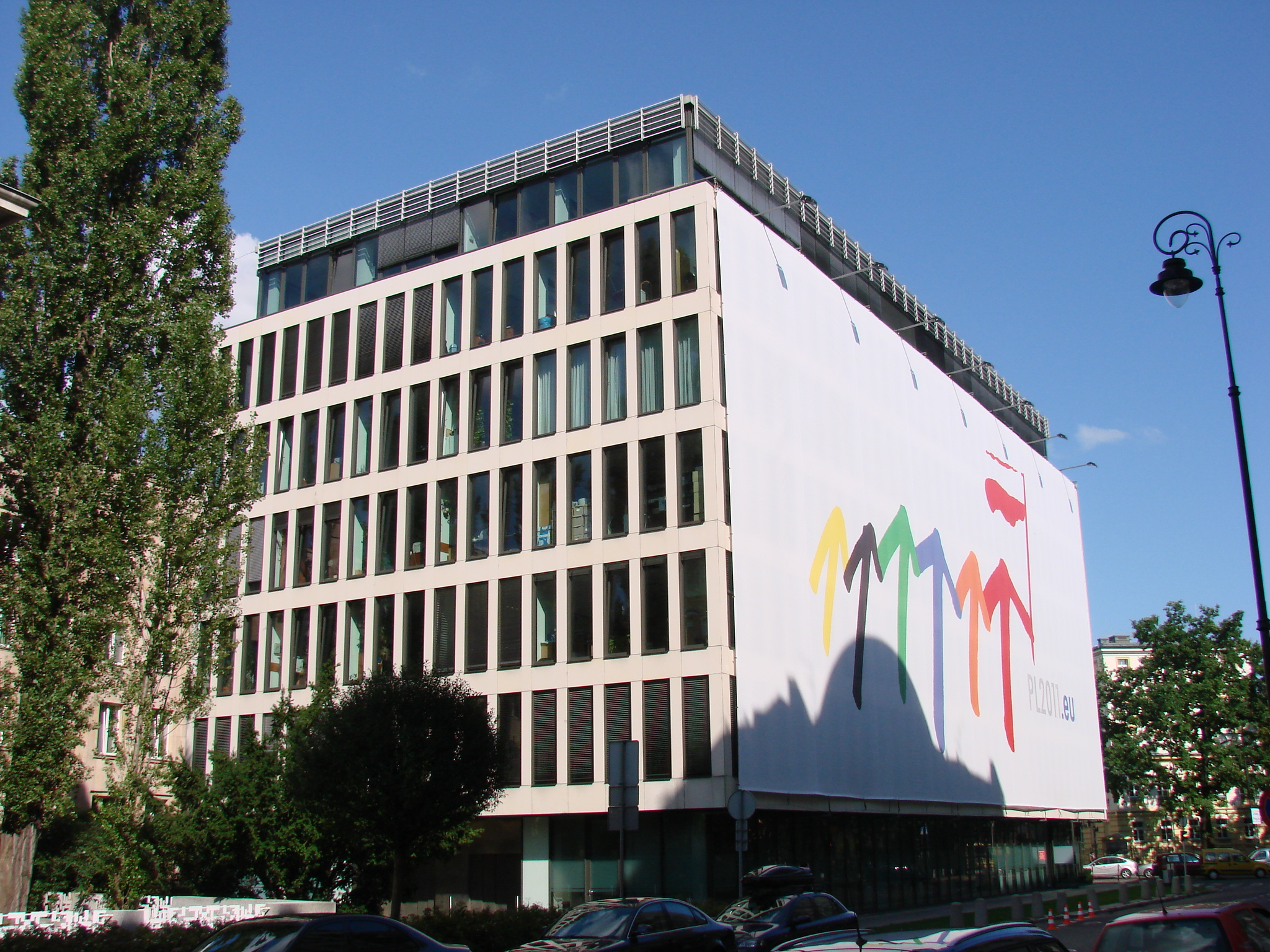 Ministry of Foreign Affairs of the Republic of Poland, adjacent building, formerly known as the Articom Center, bought by the Ministry in 2005